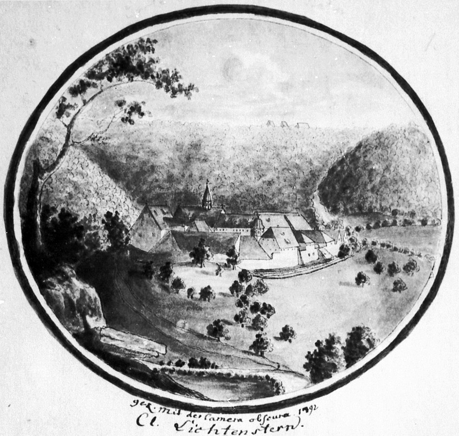 Drawing of Lichtenstern (former abbey) near Löwenstein, Germany